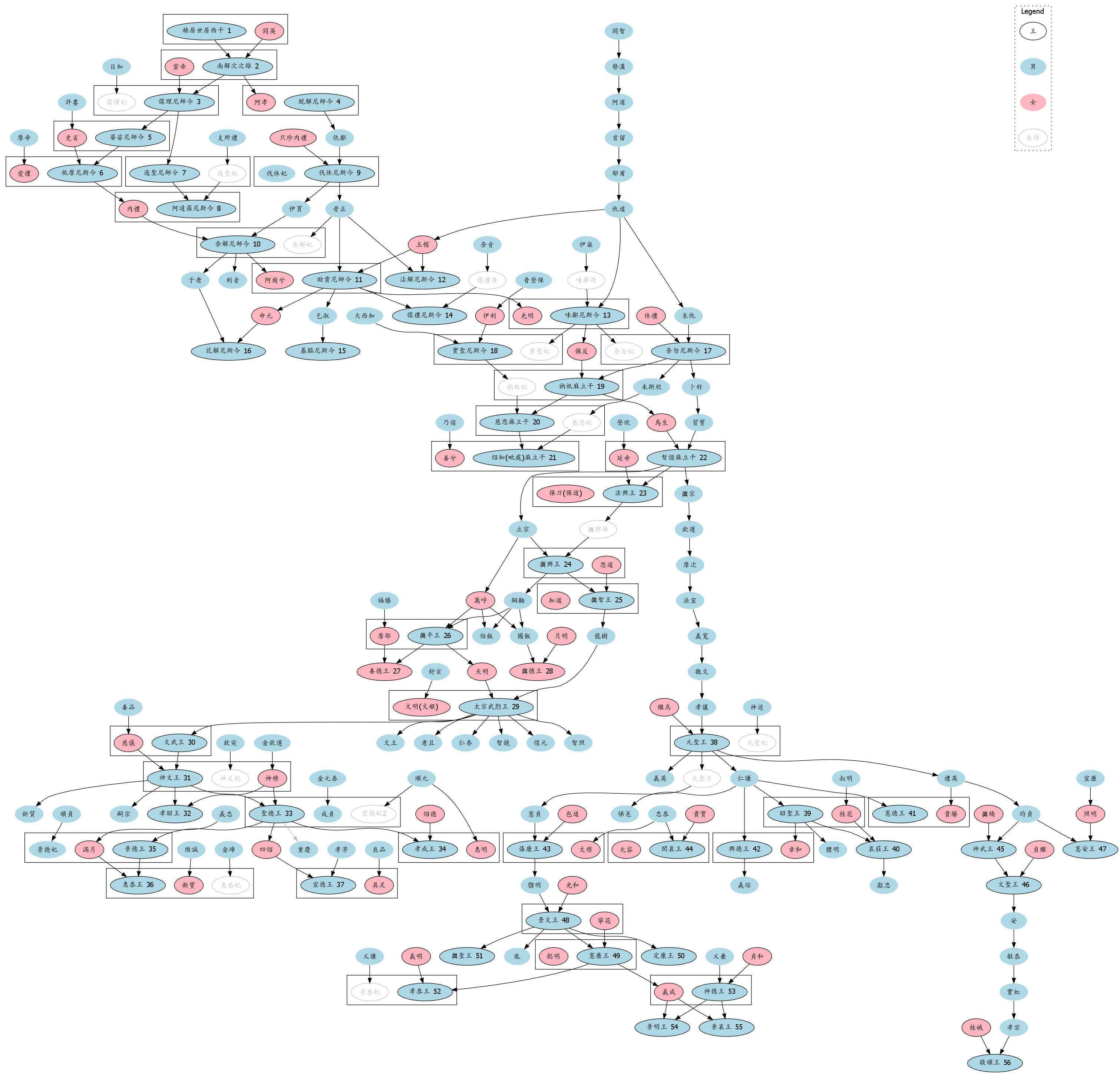 Royal family tree of Silla